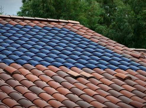 PV tiles